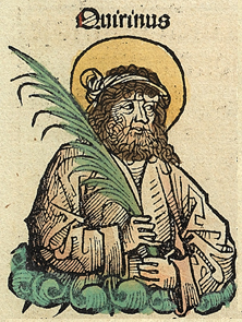 Illustration from the Nuremberg Chronicle